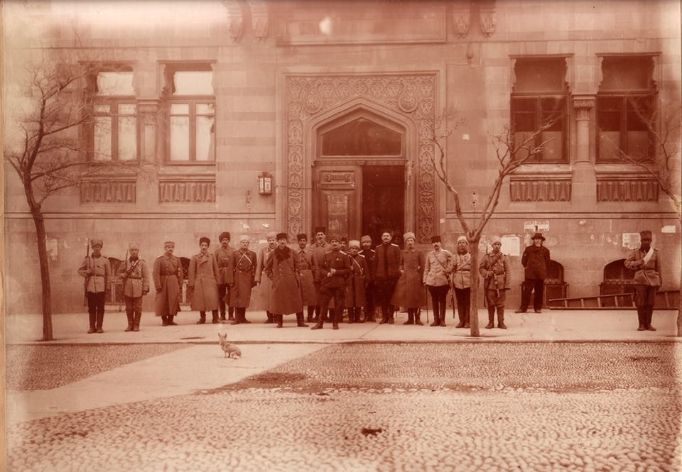 Officiers and soldiers of the Azerbaijani army in front of the Parliament of Azerbaijan (recently, the building of the Institute of Manuscripts of the Azerbaijan National Academy of Sciences). Baku, 1919 AD